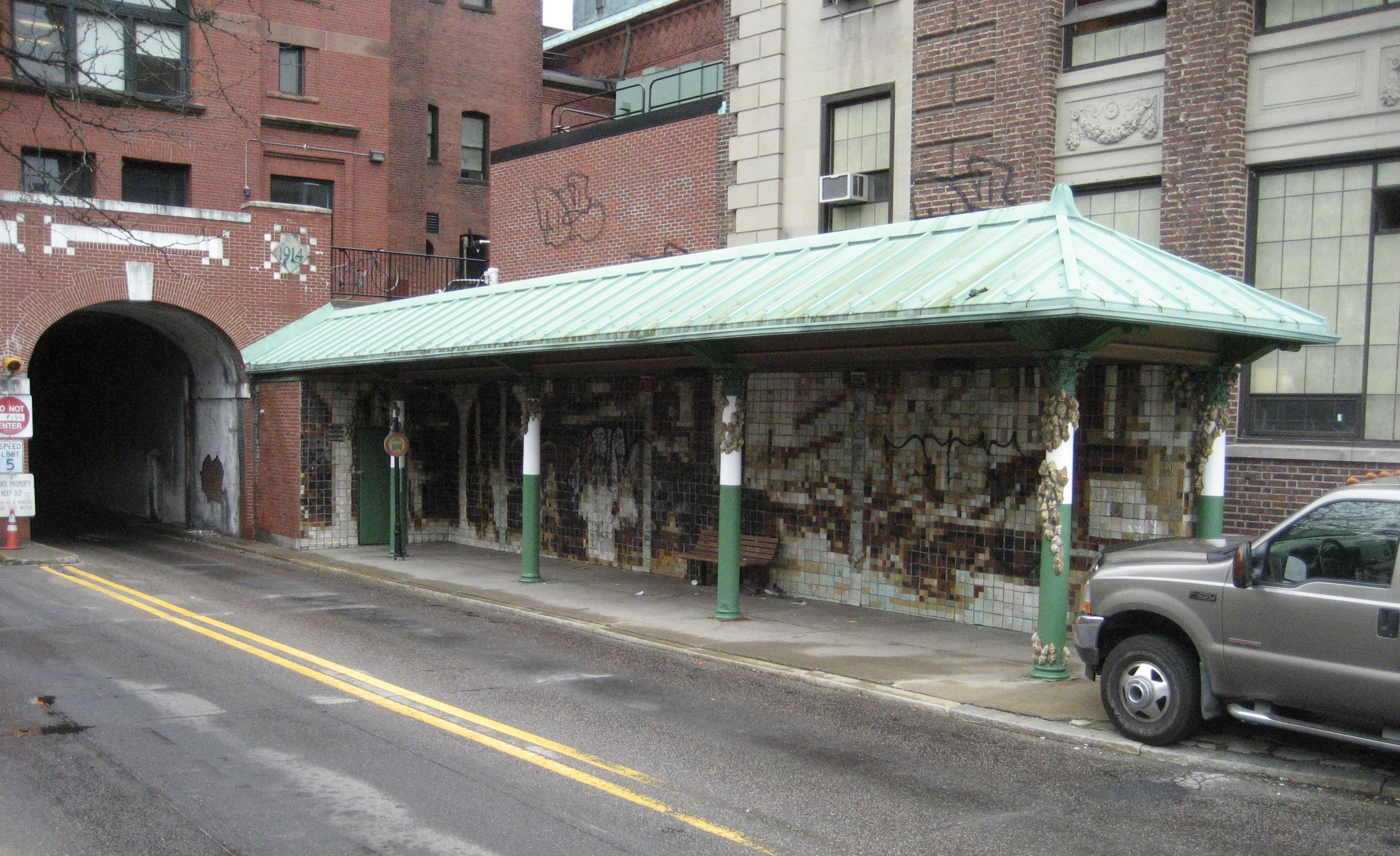 Providence, Rhode Island. Shelter/tunnel structure.